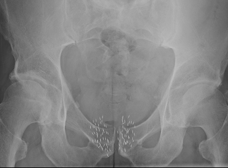 Brachytherapy beads used to treat prostate cancer.